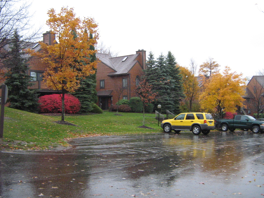 Condo in Seven Springs, Pennsylvania, a resort area and borough in Somerset and Fayette Counties. If this is on Swiss Mountain Drive, then it is likely in Fayette County